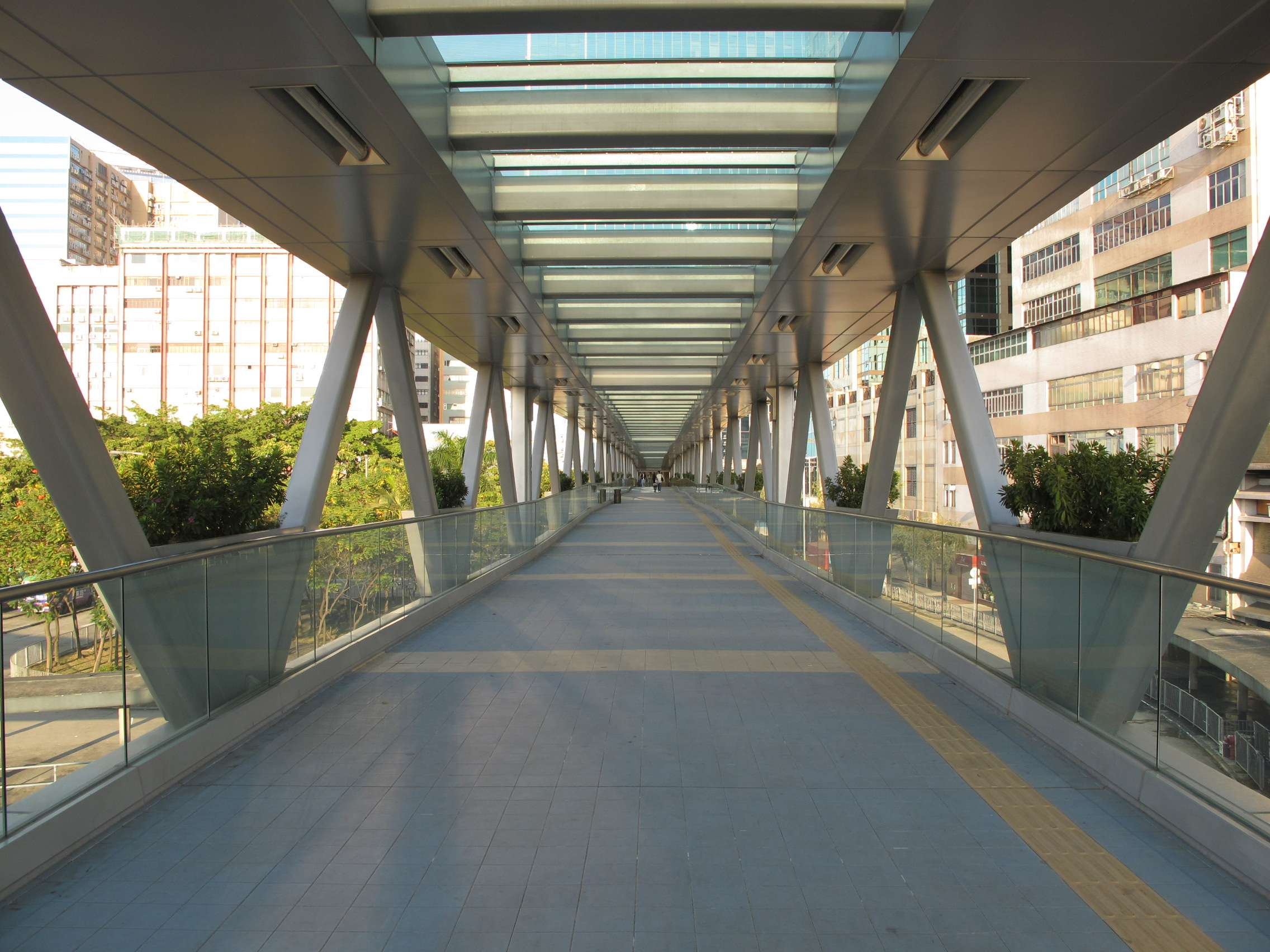 Wai Yip Street Bridge